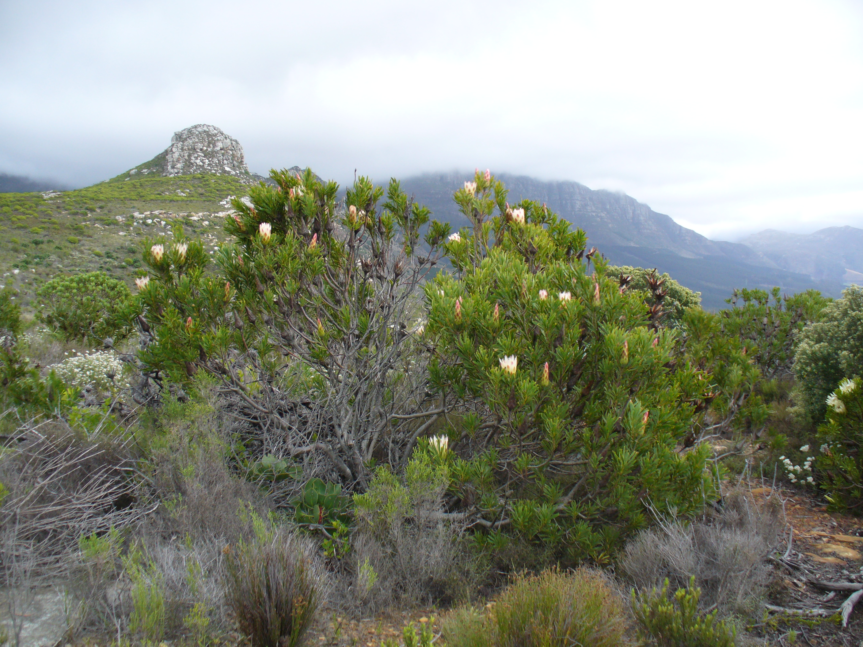 Common protea, Silvermine, Cape Town